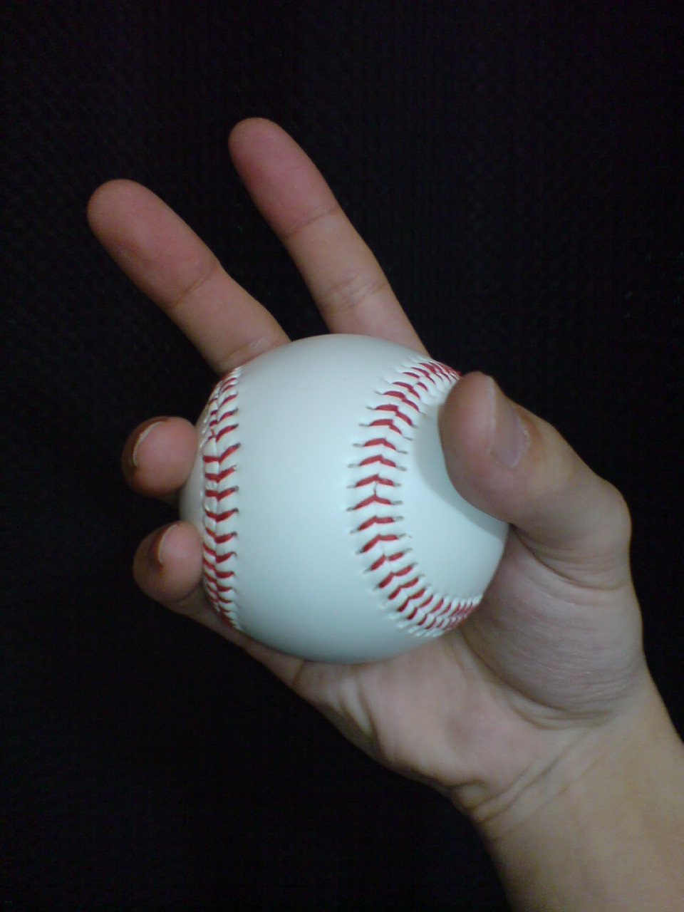 Palmball